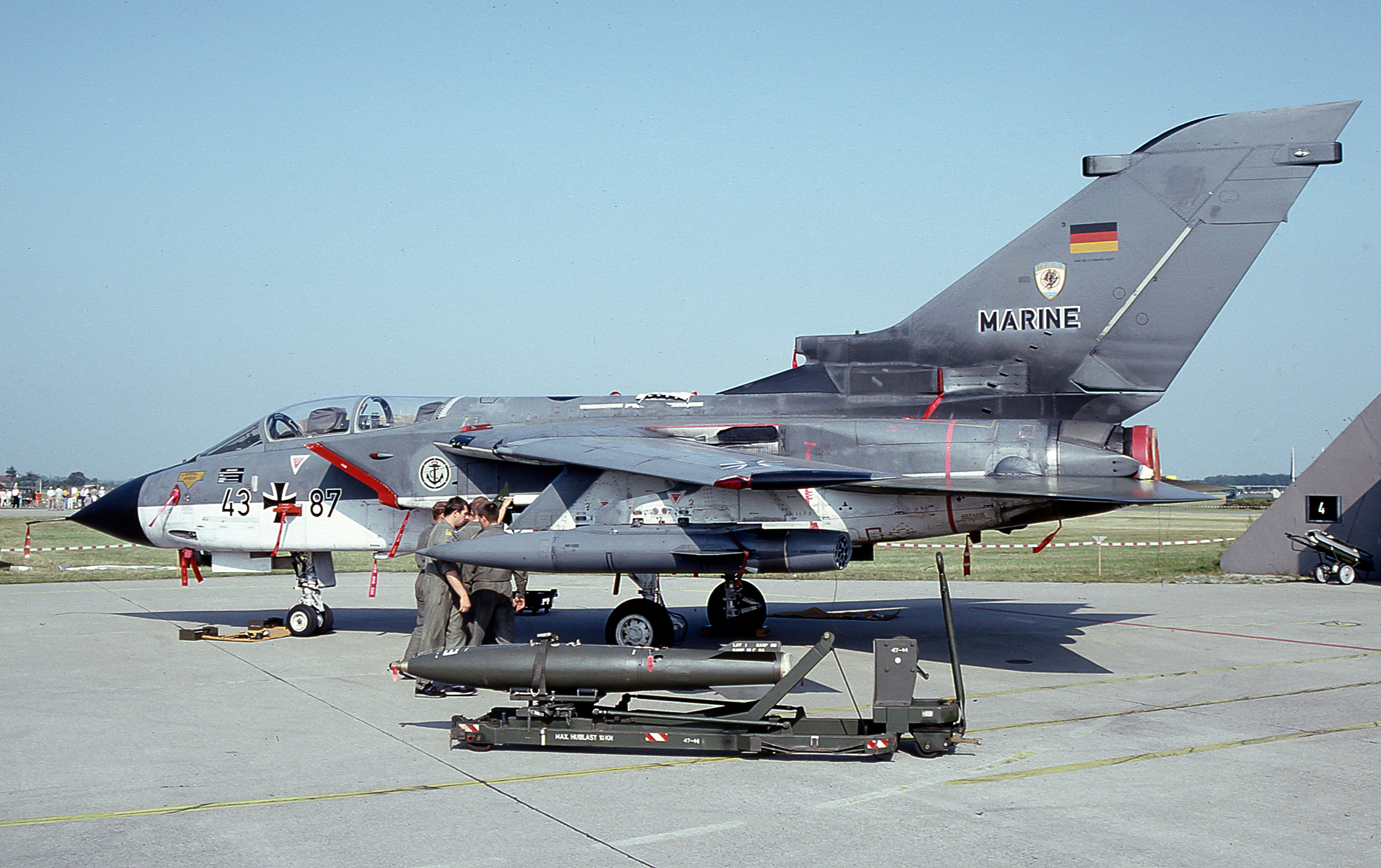 Taken at Eggebeck Airshow in 1996